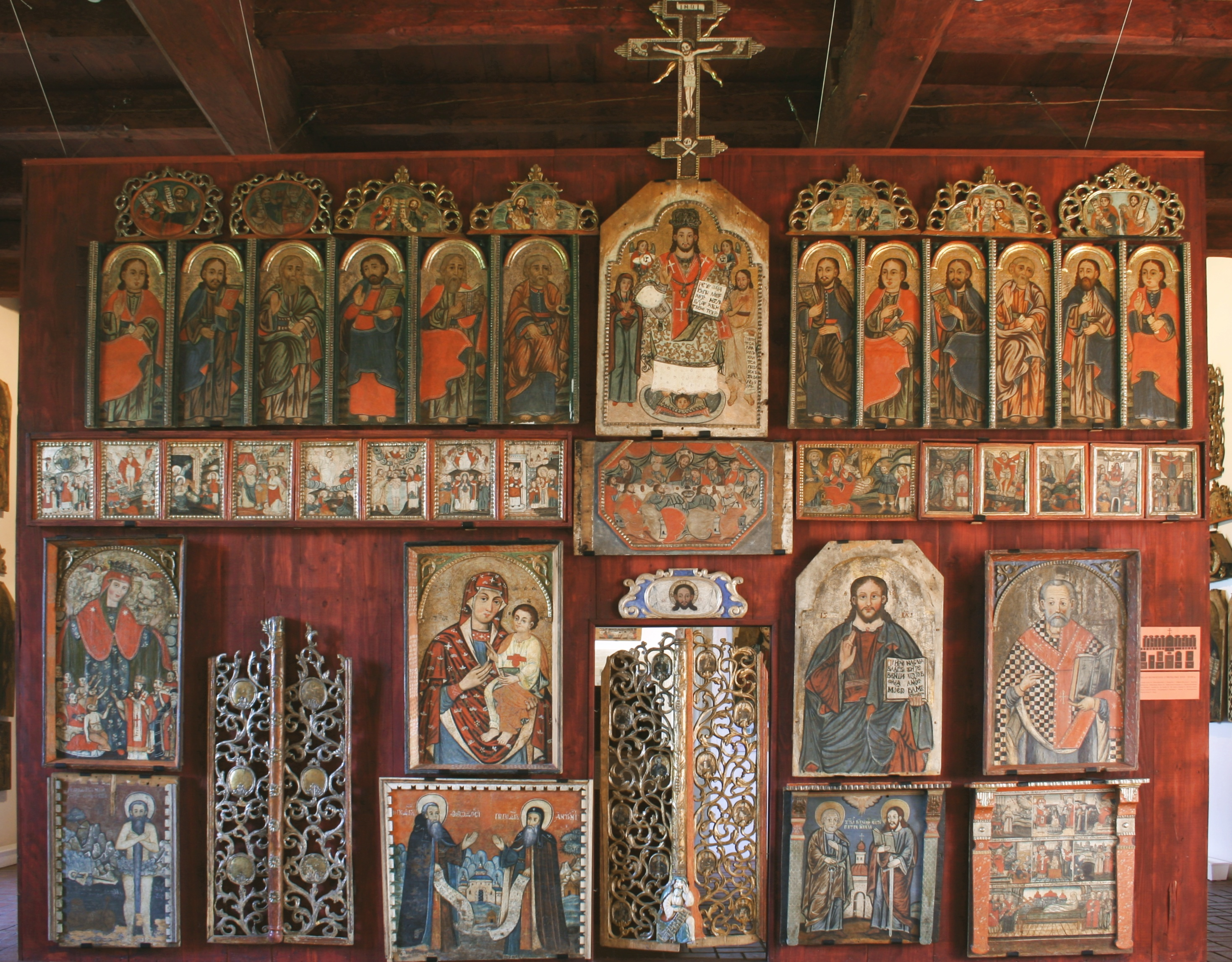 The Iconostasis 17th/18th cent, Historic Museum in Sanok, Poland